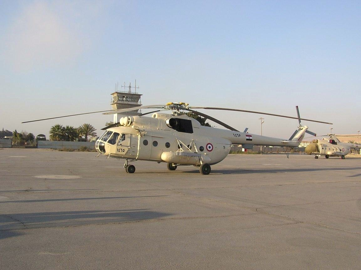 an Egyptian Air Force Mi-8